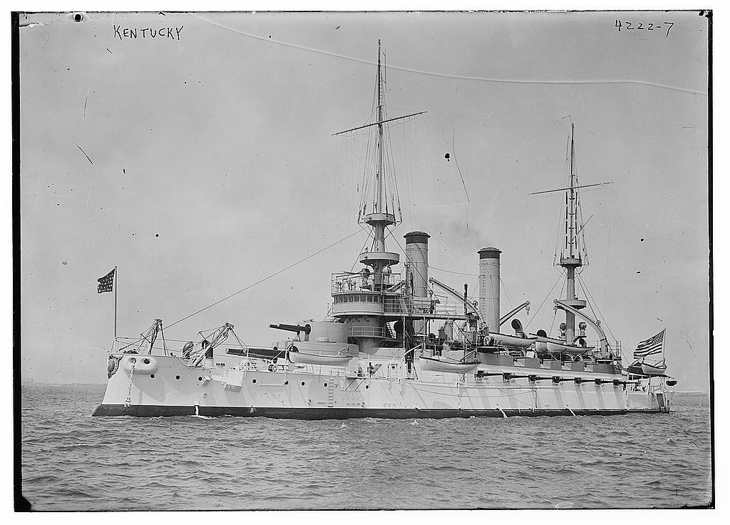 Removed caption read: Photo # NH 61239 USS Kentucky, circa 1905-08 The Battleship USS Kentucky (BB-6), Public domain photo from history.navy.mil